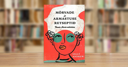 Raamatu "Mõrvade ja armastuse retseptid" kaanekujundus